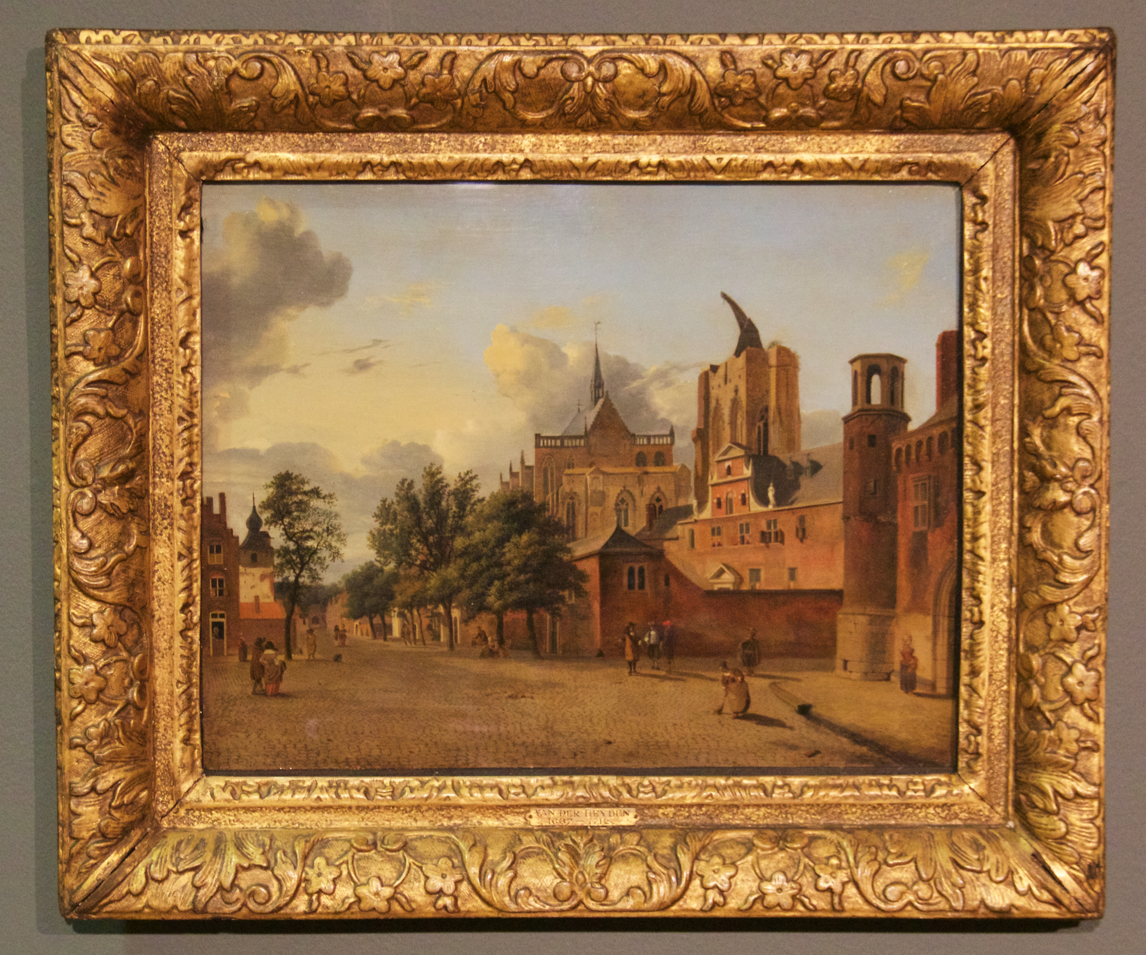 "A Street in Cologne with the Unfinished Cathedral in the Centre. 1684. Jan van der Heyden 1637-1712. Oil on panel. Assheton Bennett bequest 1979.463" Collections of the Manchester Art Gallery, Manchester, United Kingdom.